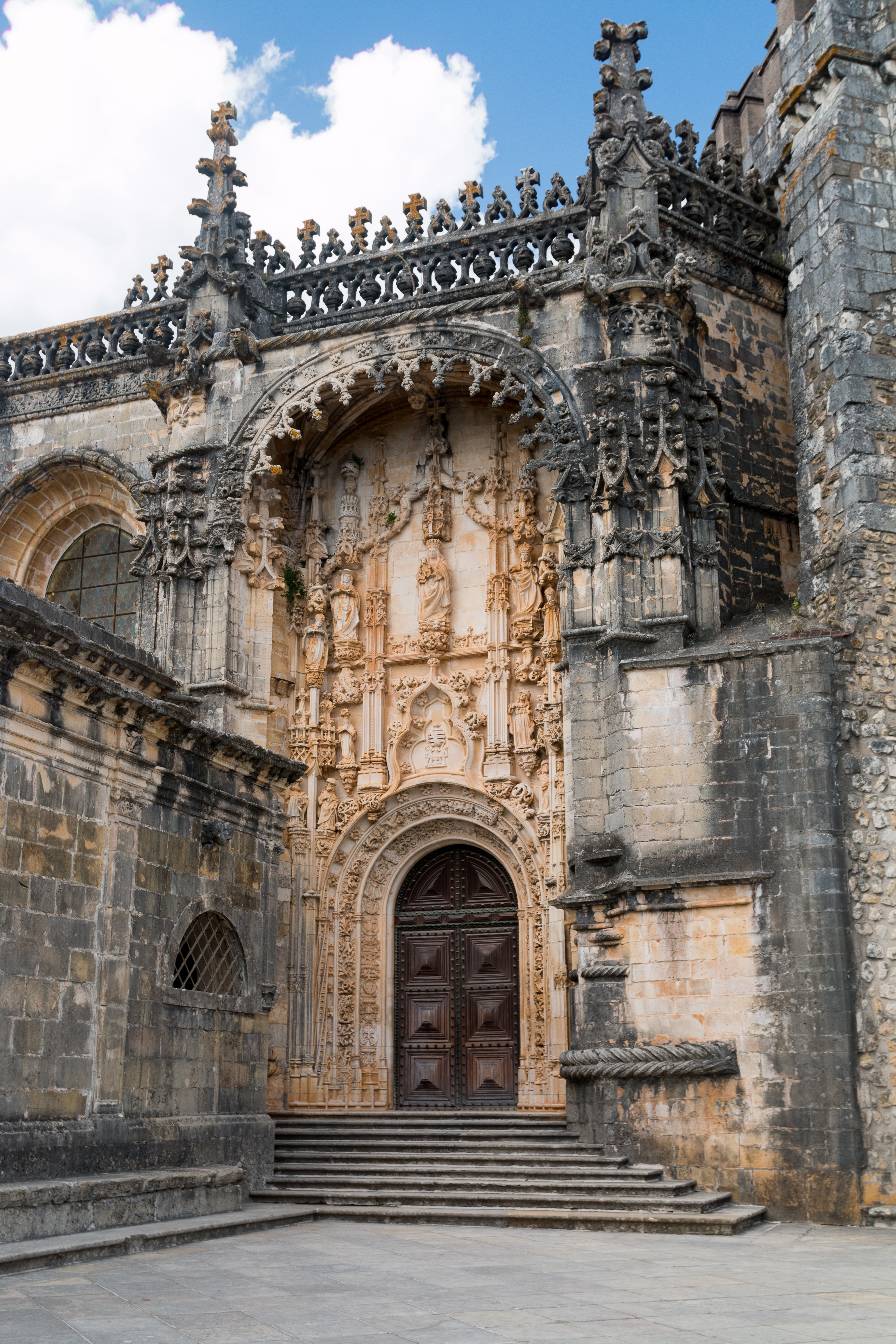 Altarpiece portal decorated with vegetal elements and grotesque. Niches with great statues.